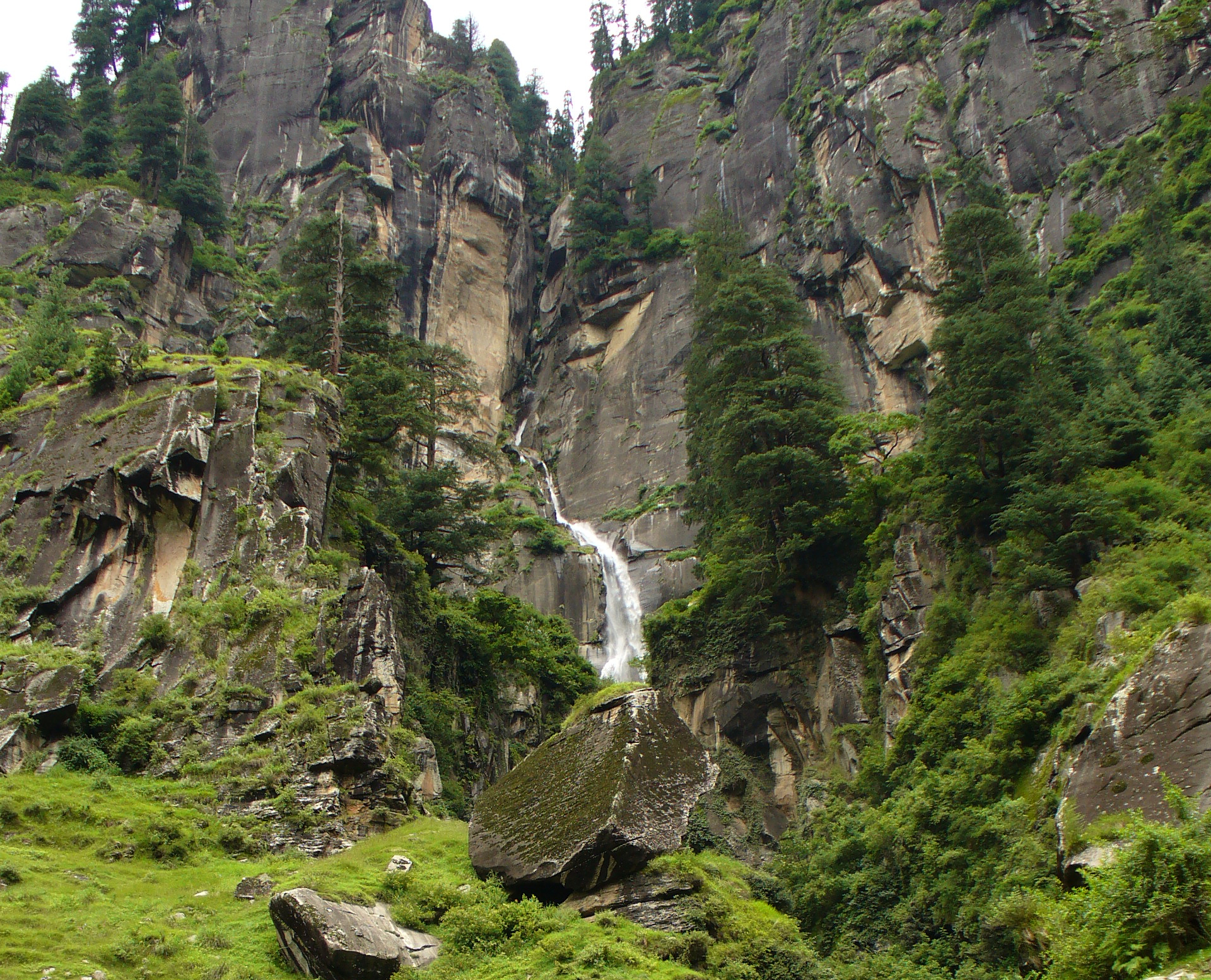 Picea smithiana and scattered Cedrus deodara (see notes). Around Vashist, Himachal Pradesh, India.